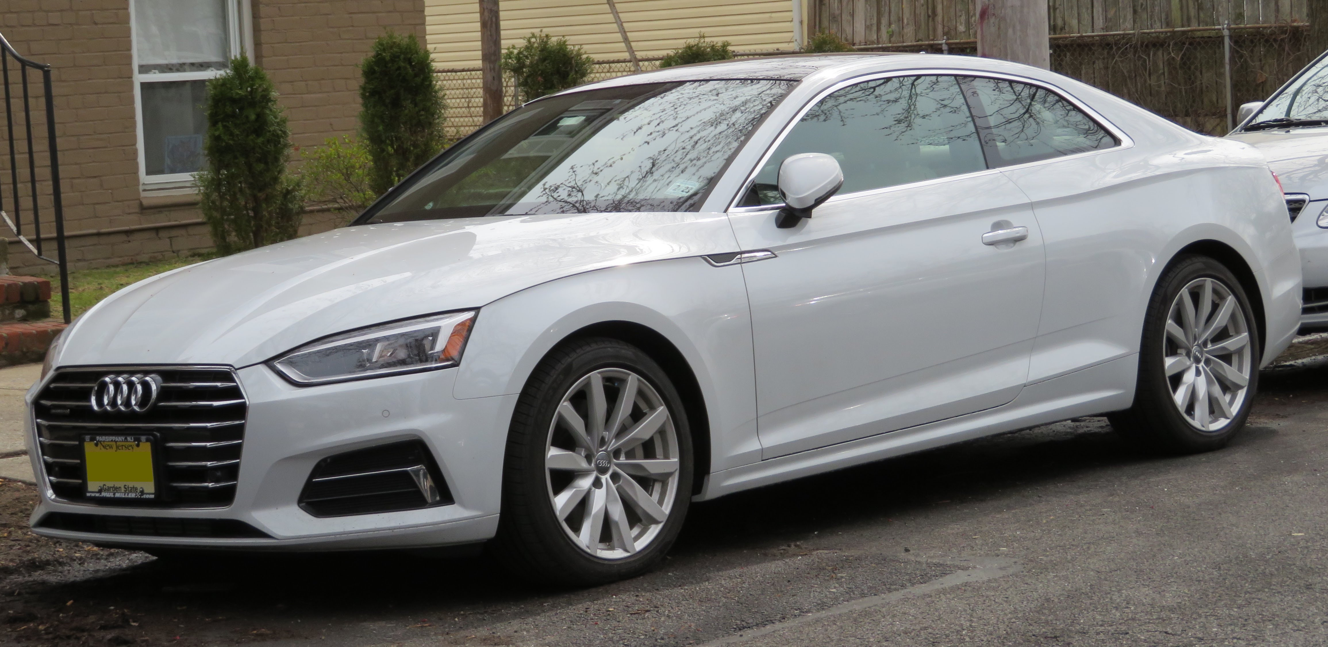 2018 Audi A5 Coupé 2.0 TFSI quattro, photo was taken in Queens, New York